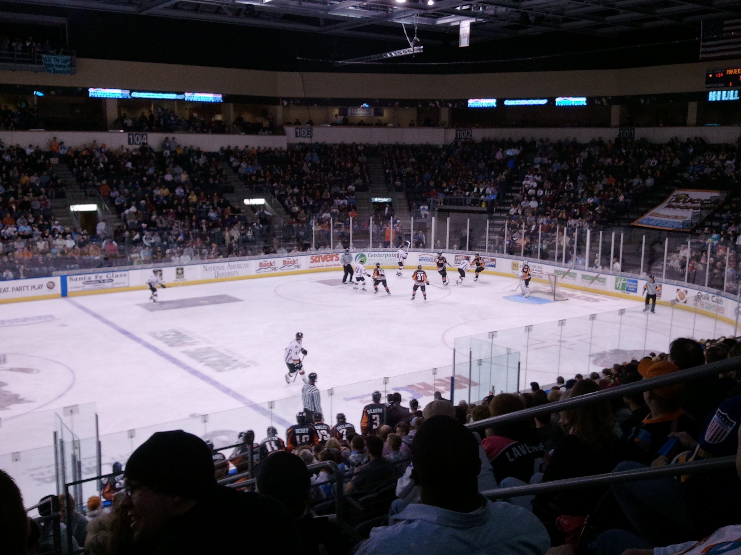 Rapid City Rage vs Missouri Mavericks at Independence Events Center on February 18, 2011.